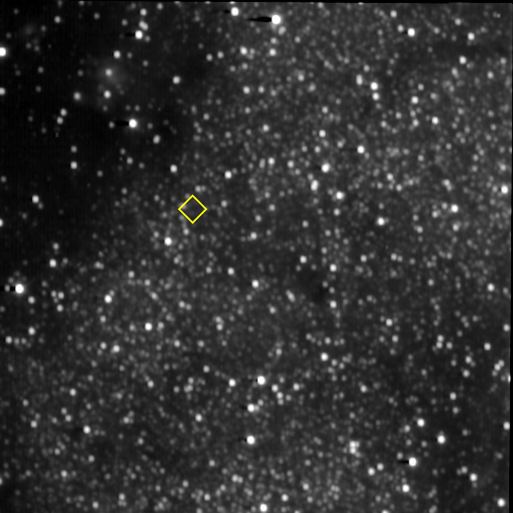 In preparation for the New Horizons flyby of 2014 MU69 on Jan. 1, 2019, the spacecraft's Long Range Reconnaissance Imager (LORRI) took a series of 10-second exposures of the background star field near the location of its target Kuiper Belt object (KBO). This composite image is made from 45 of these 10-second exposures taken on Jan. 28, 2017. The yellow diamond marks the predicted location of MU69 on approach, but the KBO itself was too far from the spacecraft (544 million miles, or 877 million kilometers) even for LORRI's telescopic "eye" to detect. New Horizons expects to start seeing MU69 with LORRI in September of 2018 -- and the team will use these newly acquired images of the background field to help prepare for that search on approach. The Johns Hopkins University Applied Physics Laboratory in Laurel, Maryland, designed, built, and operates the New Horizons spacecraft, and manages the mission for NASA's Science Mission Directorate. The Southwest Research Institute, based in San Antonio, leads the science team, payload operations and encounter science planning. New Horizons is part of the New Frontiers Program managed by NASA's Marshall Space Flight Center in Huntsville, Alabama.